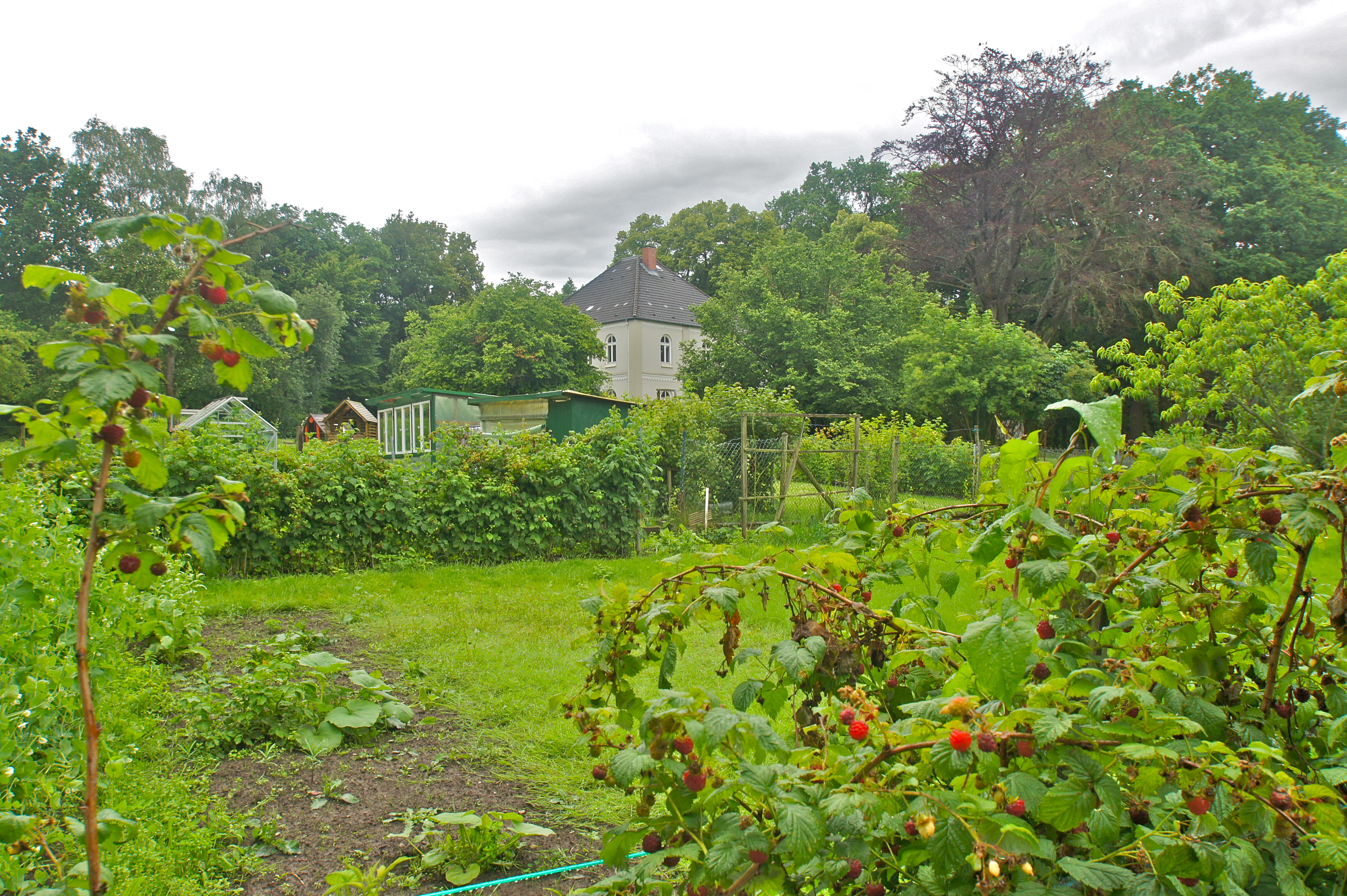 Hamburg (Sinstorf), Germany: The rectory's Garden